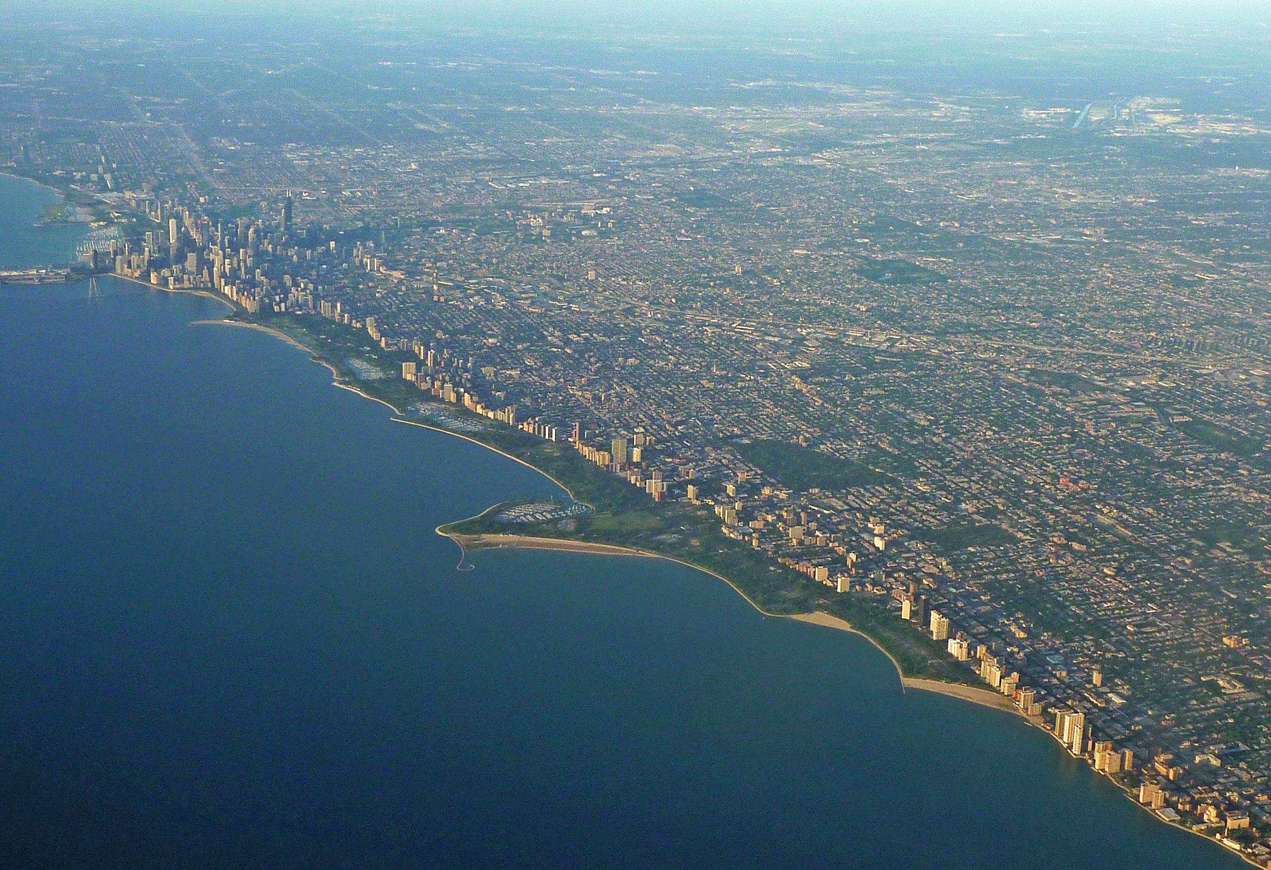 An aerial shot of the Chicago skyline.